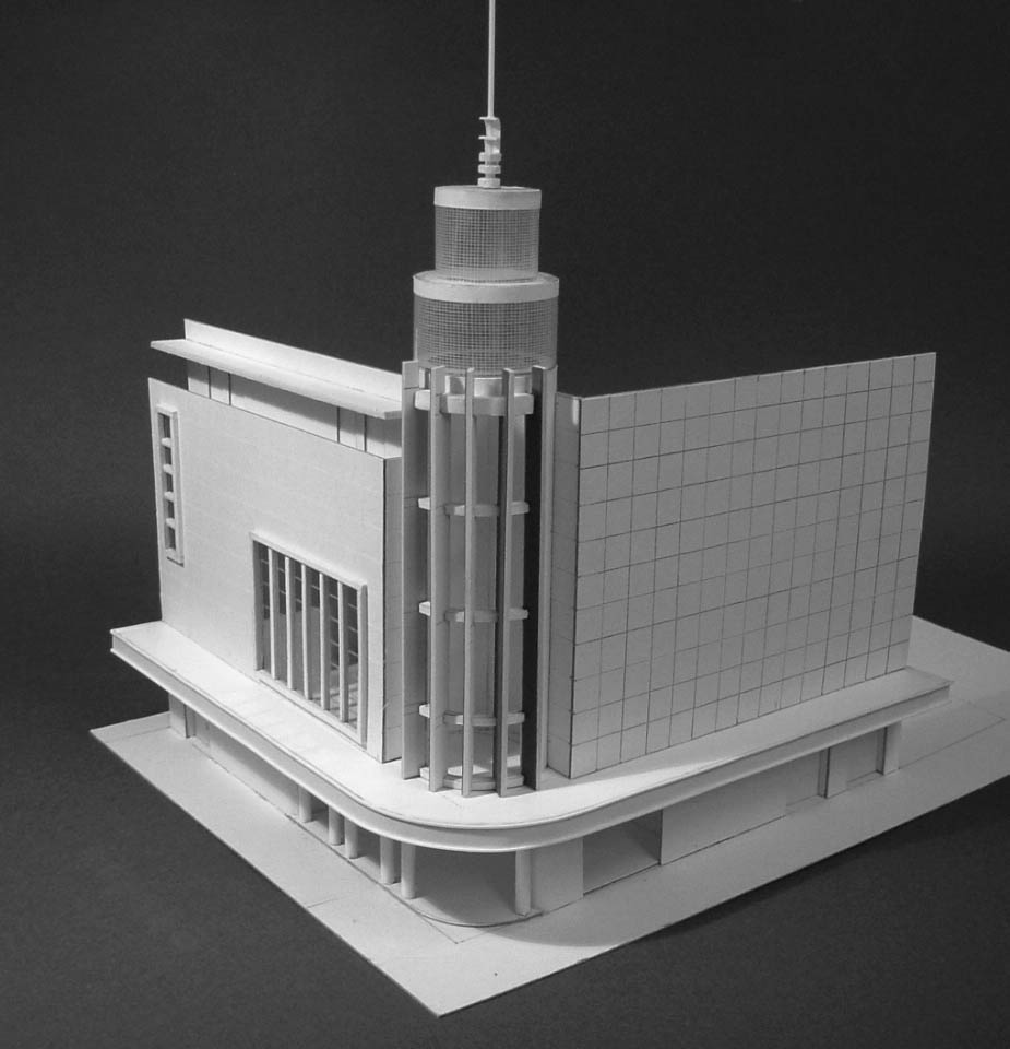 1/150 scale scratch-built model of a demolished cinema Capitol Theatre in Hong Kong Causeway Bay.